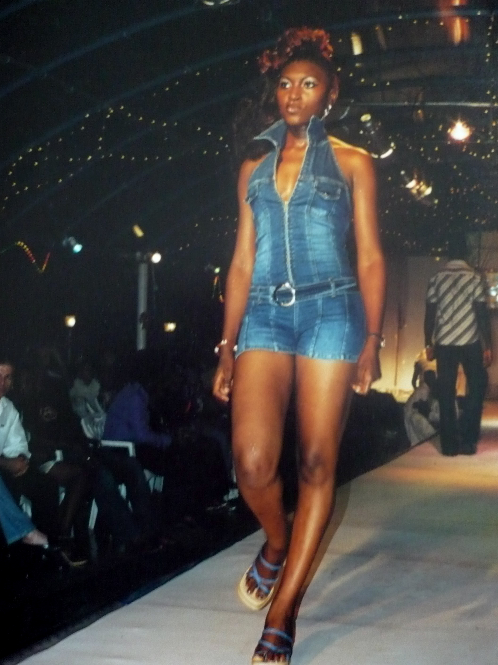 Ufuoma Ejenobor modeling for Collectibles